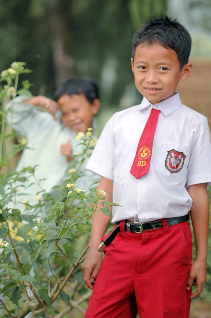 A young boy in Indonesia with the elementary school uniform.Stud of Ciwidey